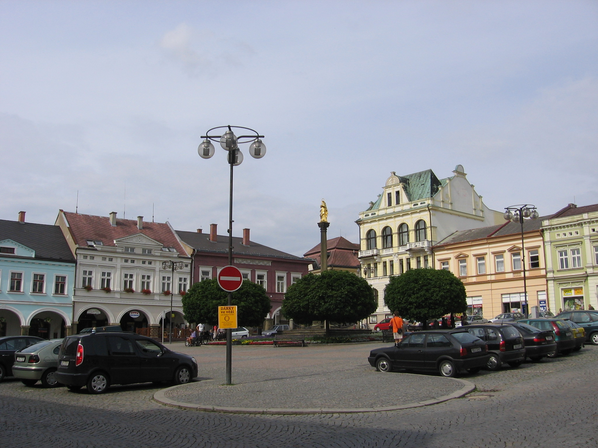 Peace Square in Ústí nad Orlicí (Czech Republic)